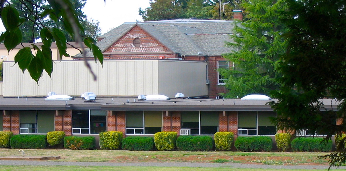 Sandy High School